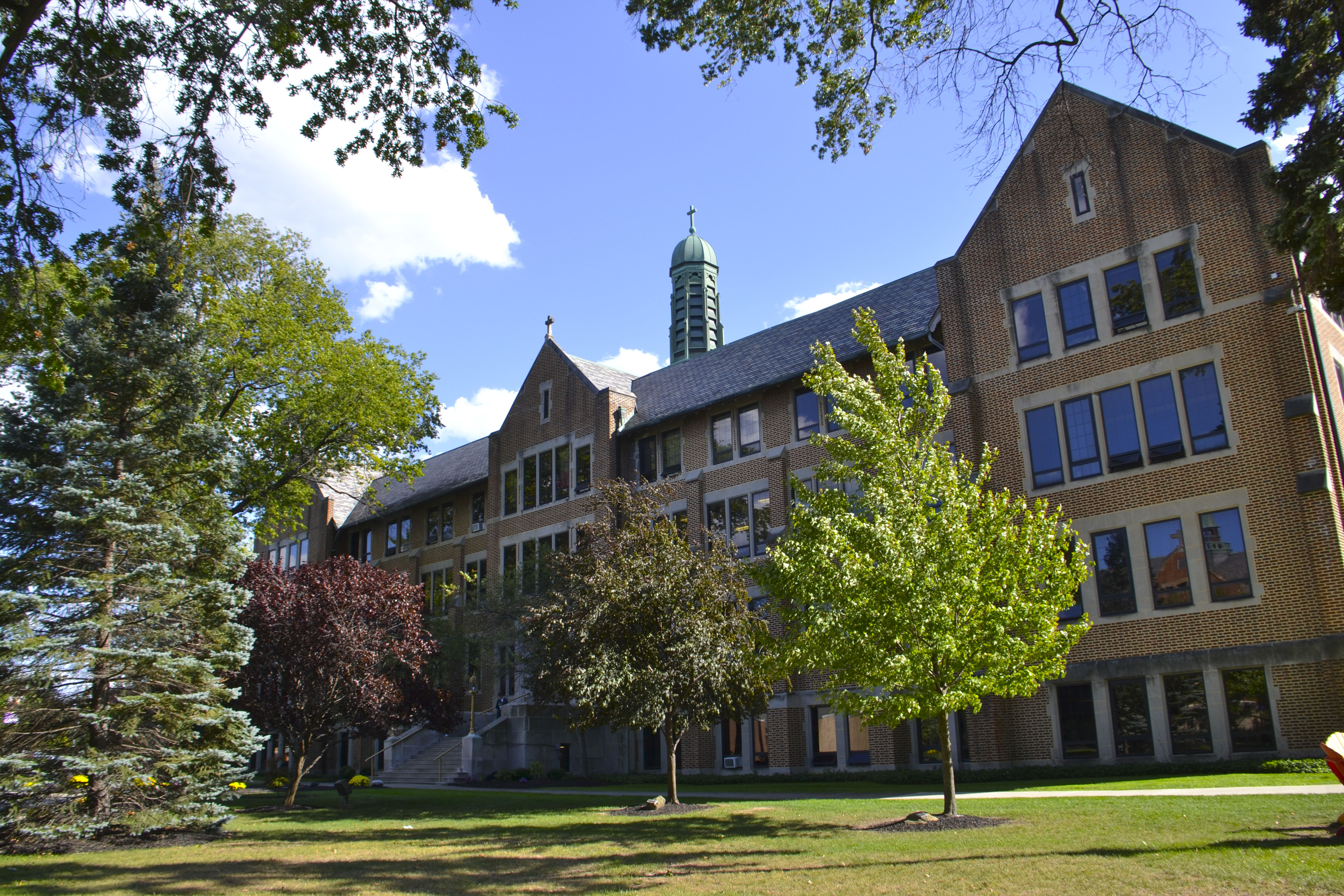 A picture of the campus of Saint Joseph Academy in fall 2016